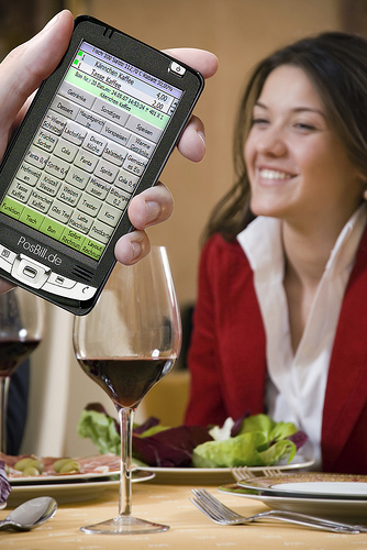 A mobile cash register used e. g. in restaurants.